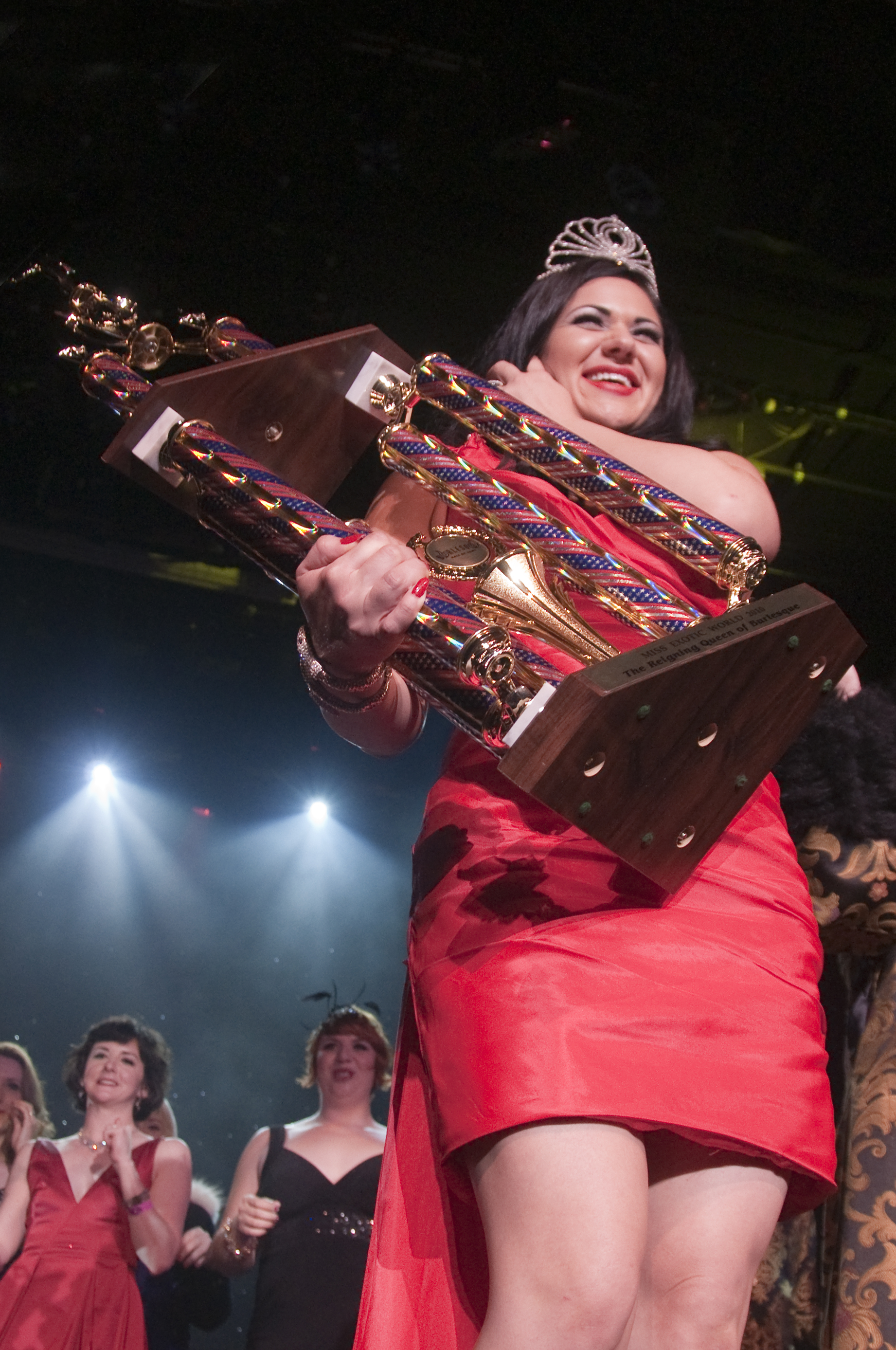 The Reigning Queen of Burlesque Roxi Dlite moments after accepting the Miss Exotic World crown and trophy at the Plaza in Las Vegas.